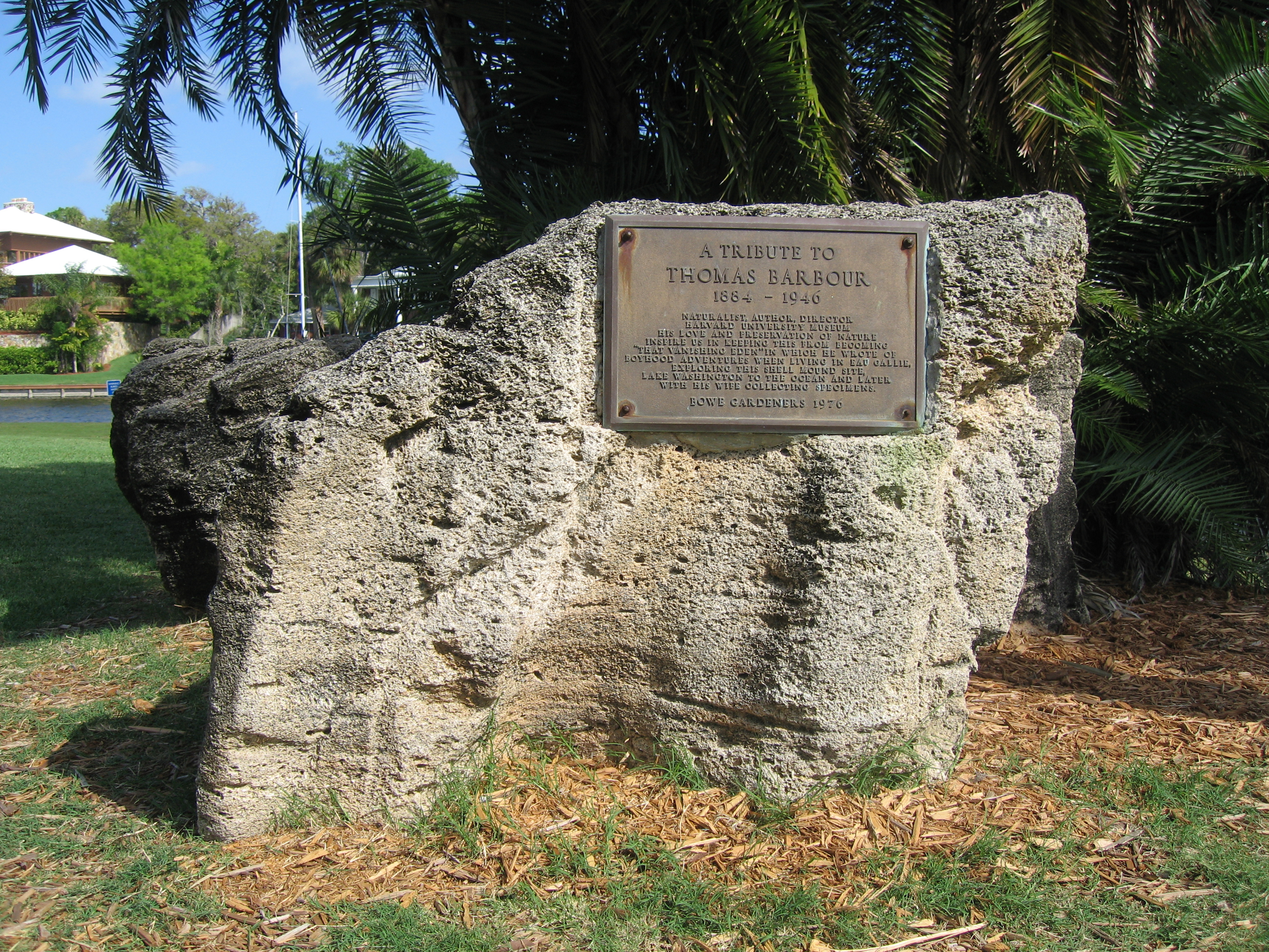 Memorial located at Ballard Park commemorating Thomas Barbour, naturalist and author who frequented the shell mounds on the park grounds as a boy. Ballard Park is located at 924 Thomas Barbour Drive, Melbourne, Florida.